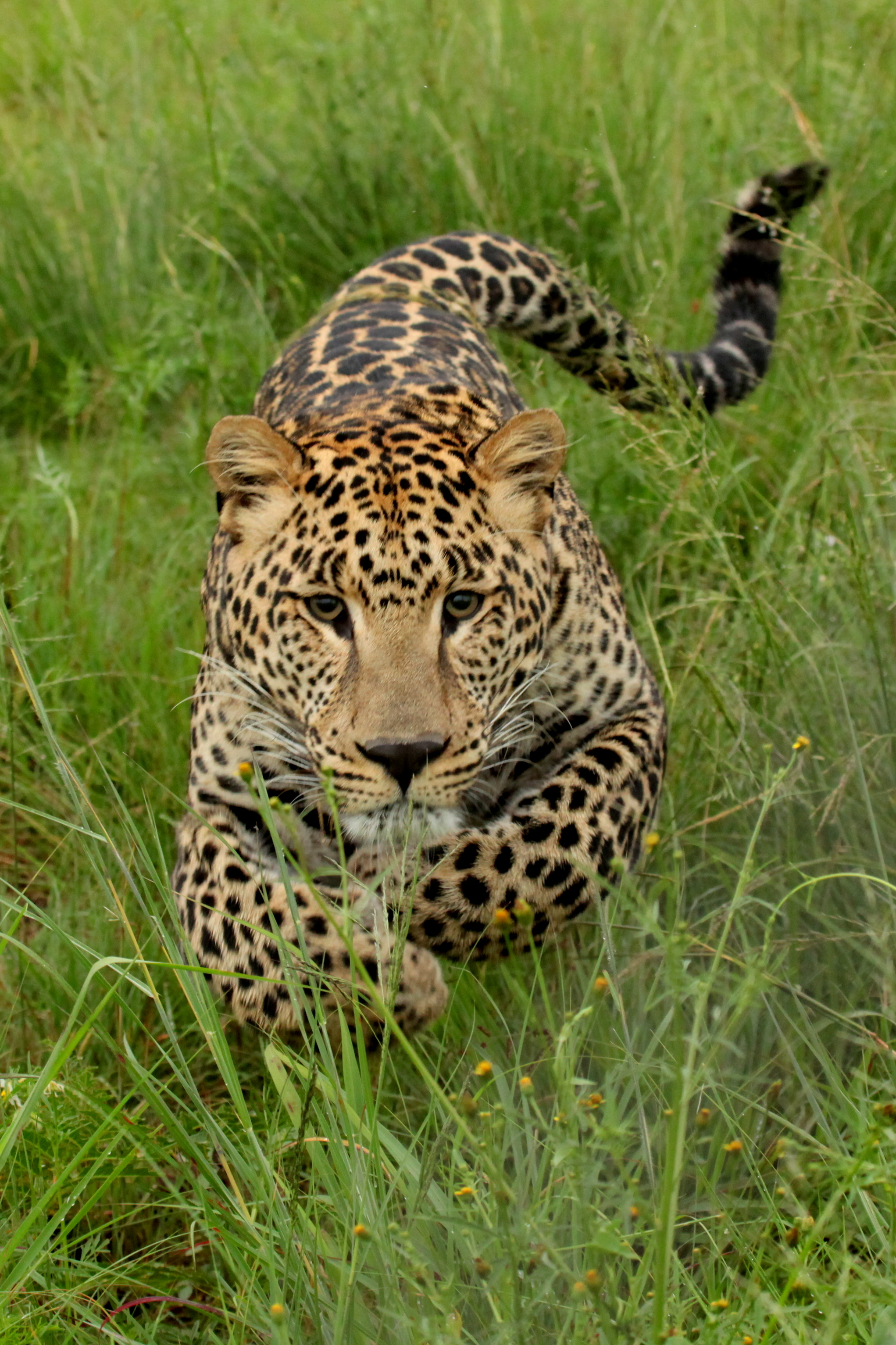 Young leopard charging. Photo taken at Rhino and Lion Park, Gauteng, South Africa.